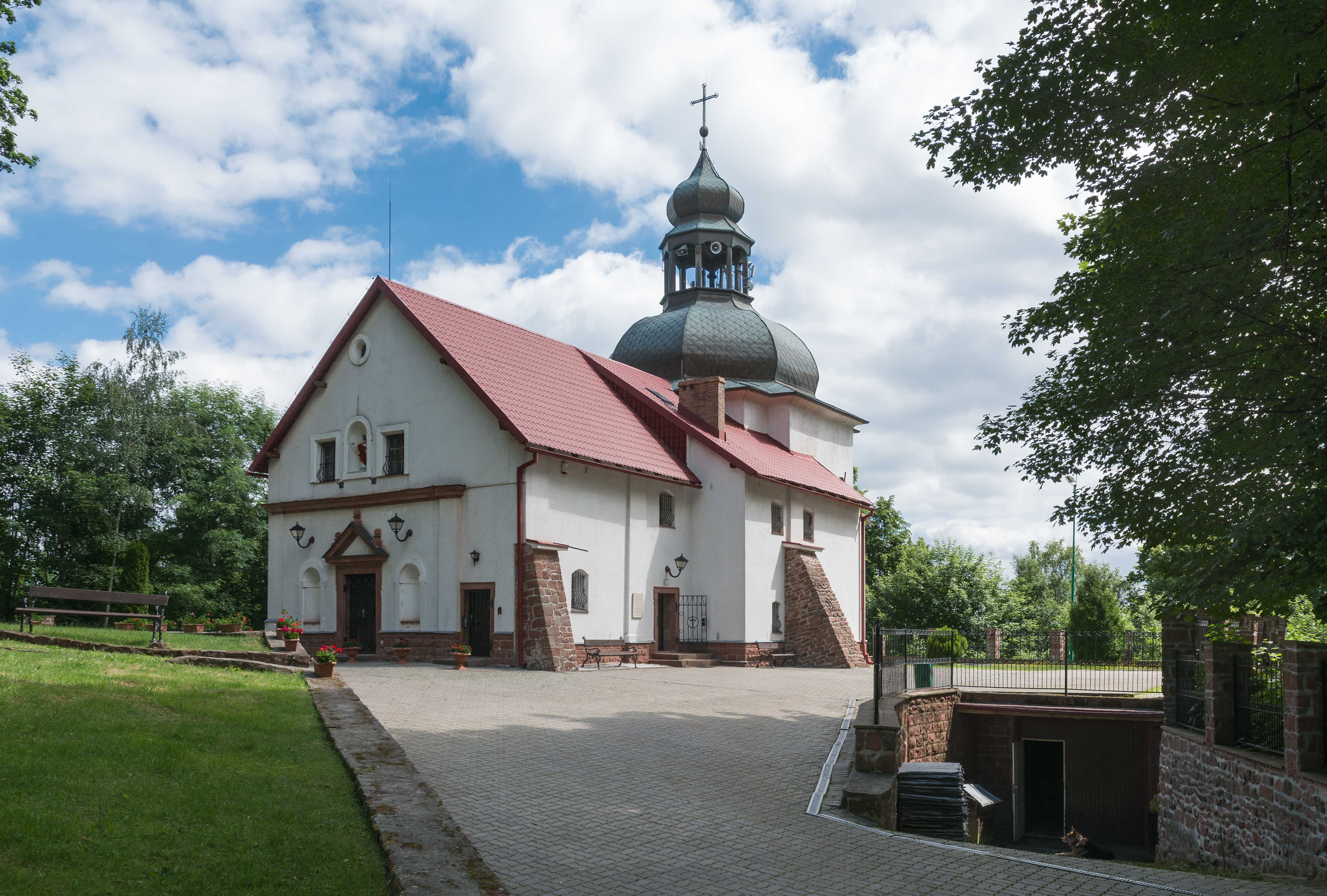 Our Lady of Sorrows Church in Nowa Ruda